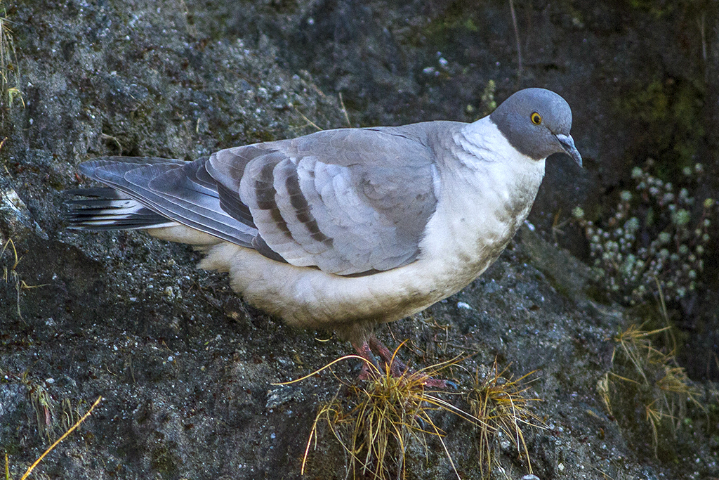 This species of Snow Pigeon had been photographed at Nathang Valley in east Sikkim on 13.05.2014 during the bird photography tour with GoingWild.